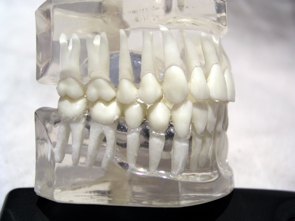 Demonstration model of teeth. The photo was taken the 23rd December 2005 by Håkan Svensson (Xauxa).